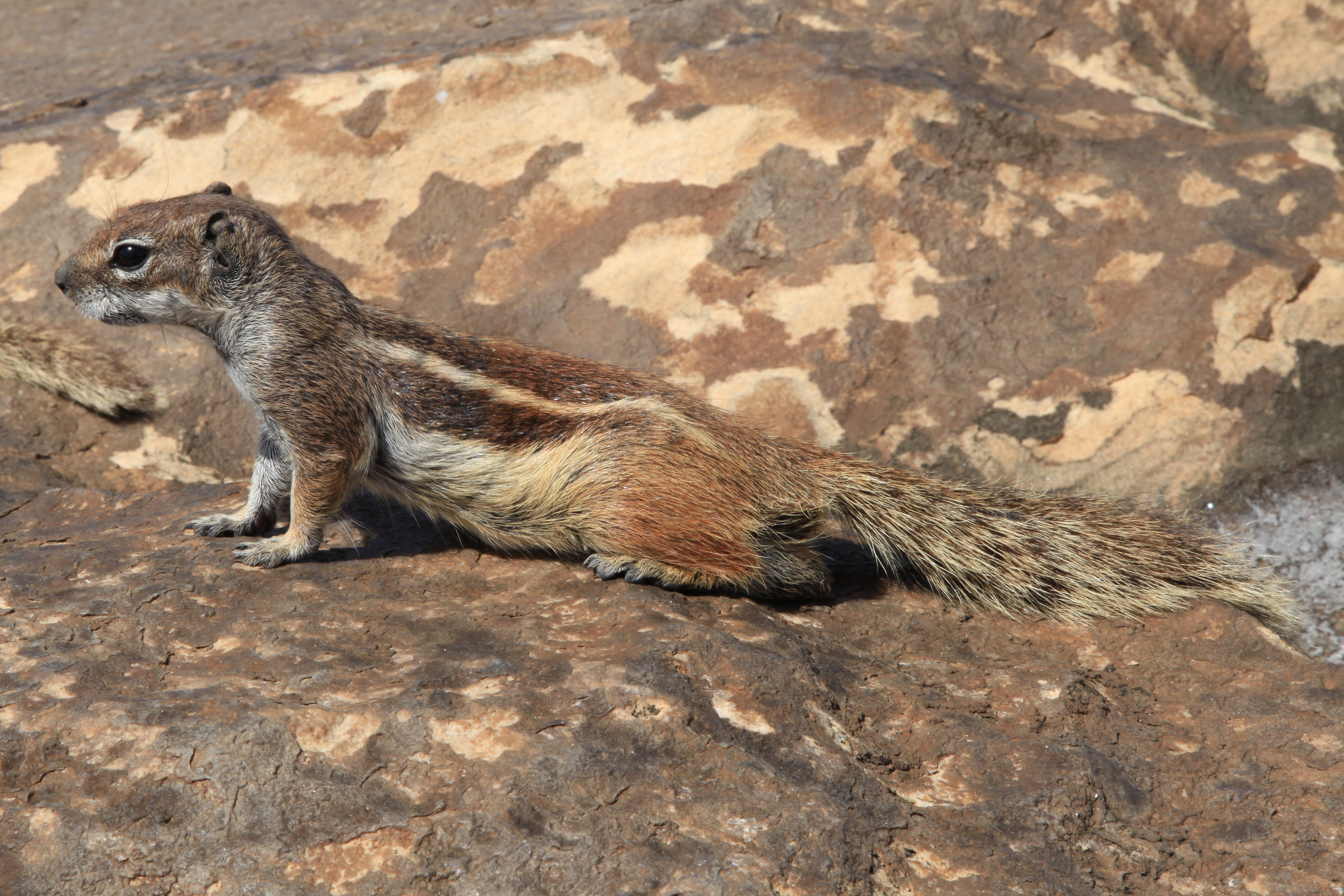 Atlantoxerus getulus at Punta Guadalupe in La Pared, Pájara, Fuerteventura, Canary Islands